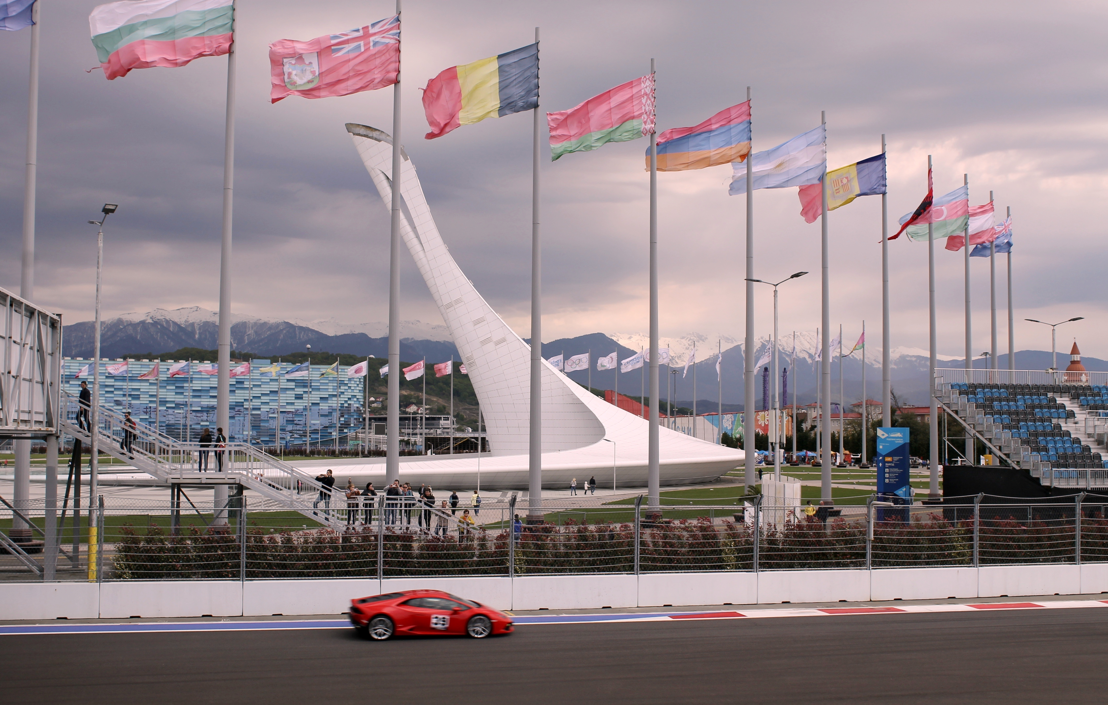 On the Sochi Olympic Park Circuit